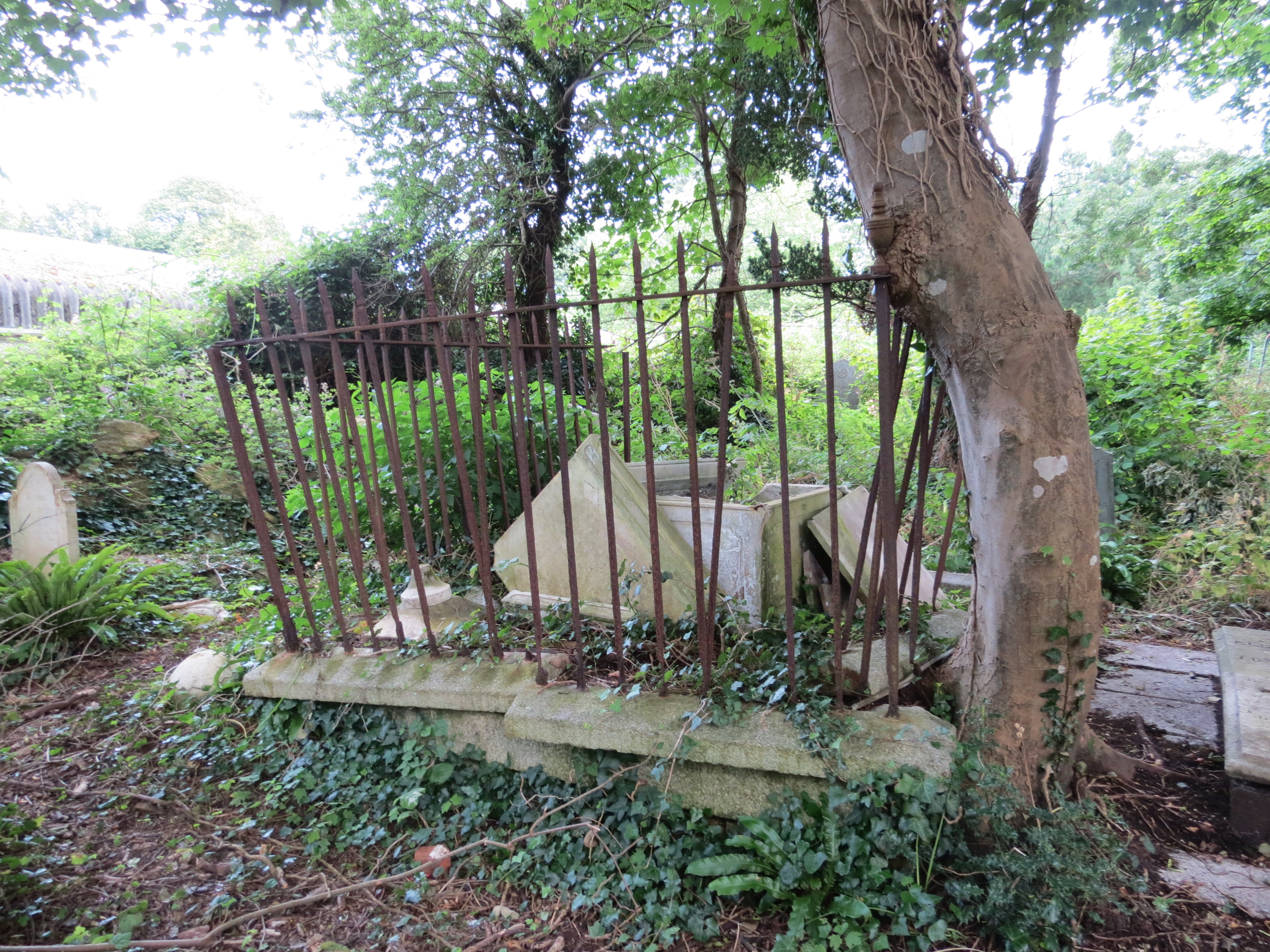 The vandalised Glasson family vault at Ponsharden, seen in 2012.